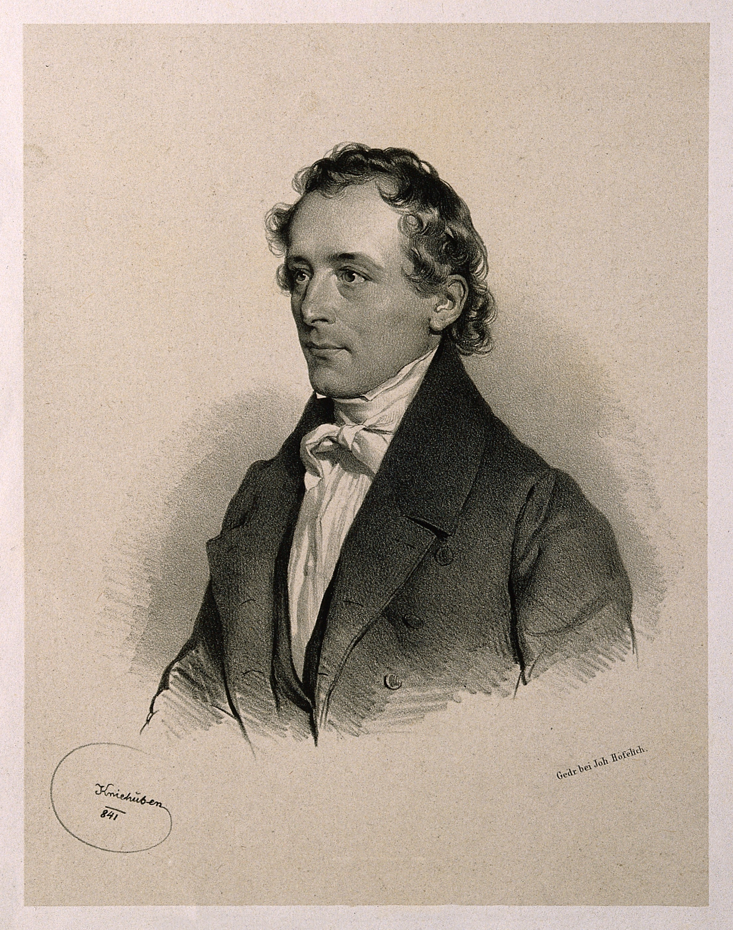 Iconographic Collections